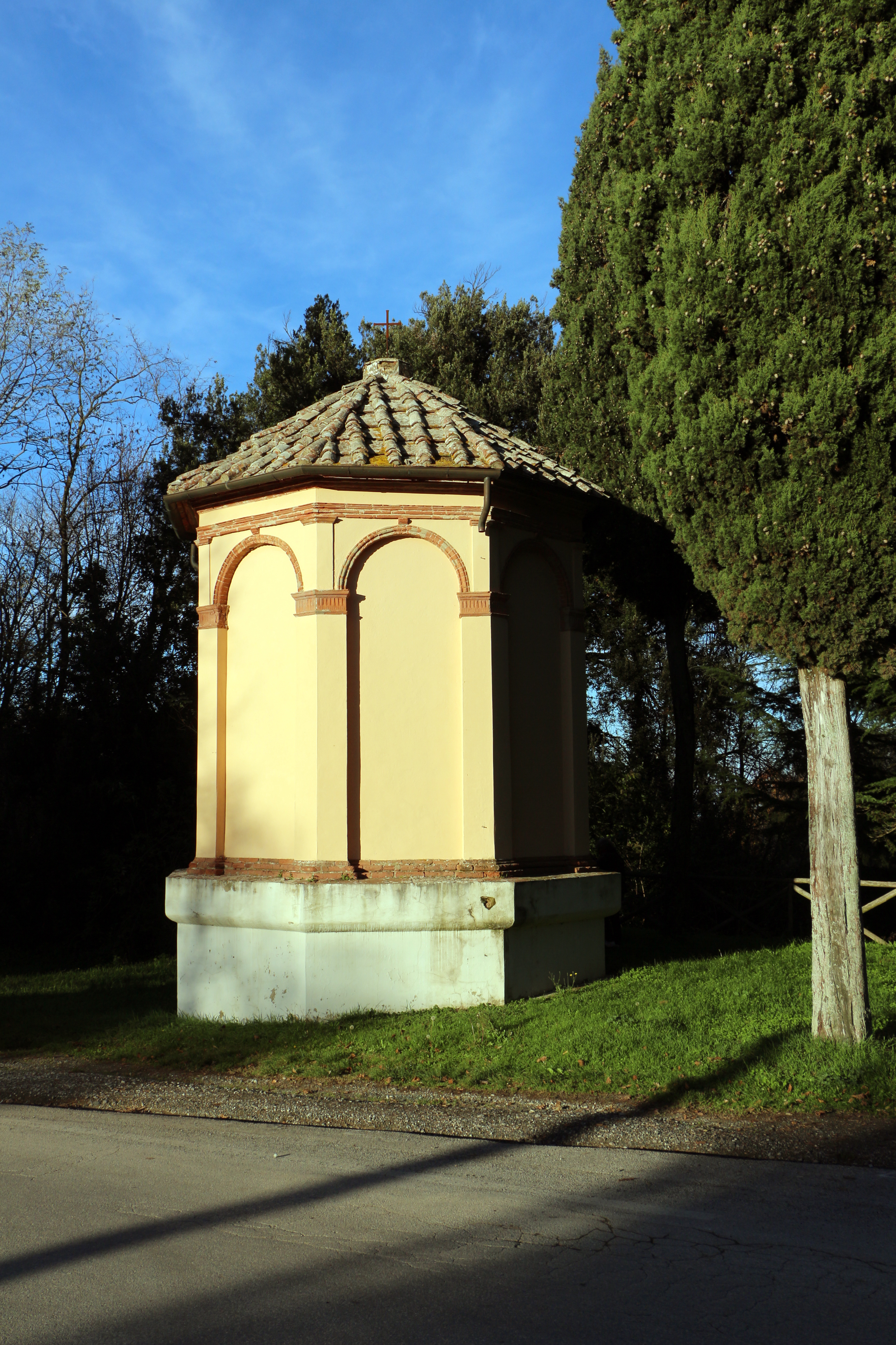 San Vivaldo Sacro Monte